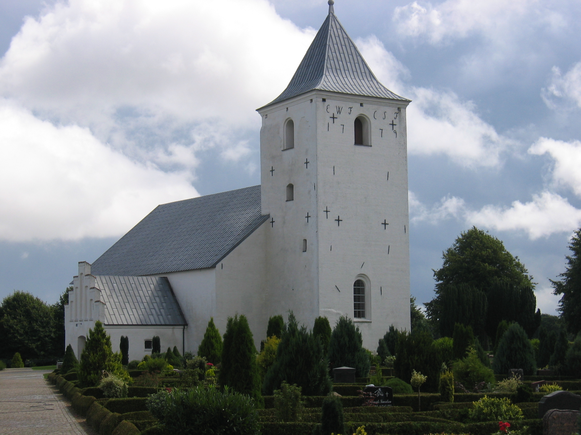 Tamdrup Church, Tamdrup parish, Nim Herred, Skanderborg County, Denmark.